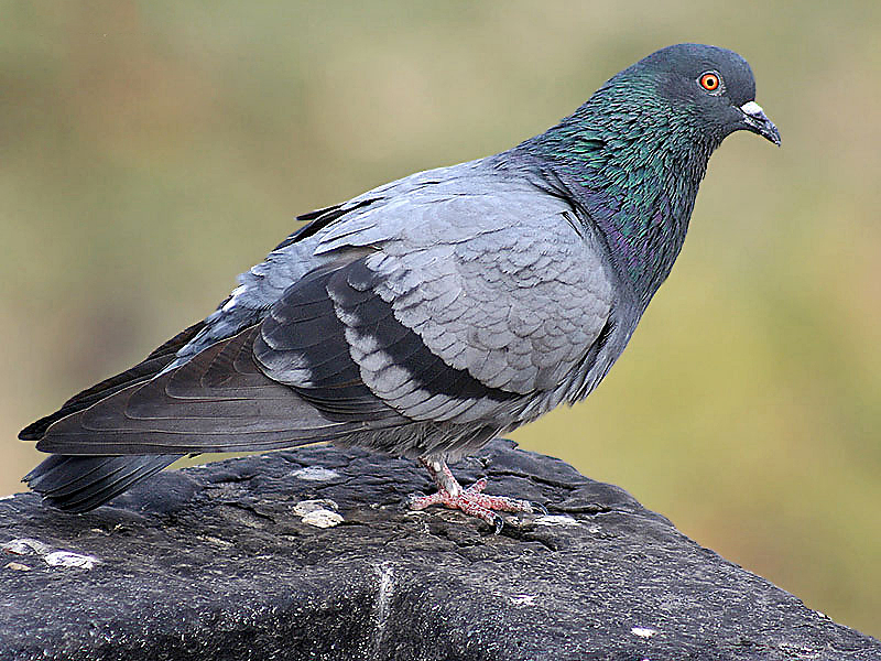 Blue Rock Pigeon Columba livia in Kolkata, West Bengal, India.